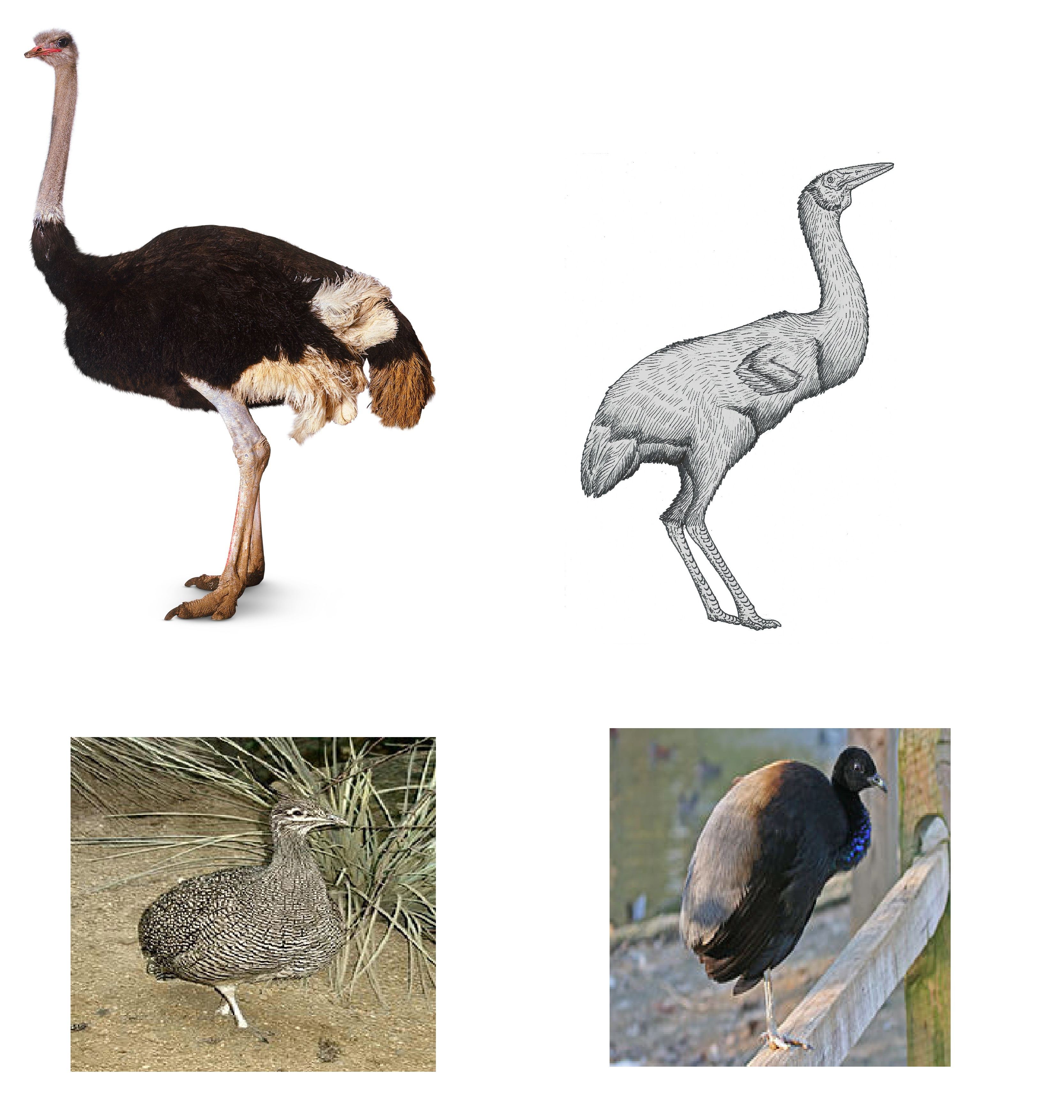 Comparison of an ostrich and an Ergilornis (to scale), combined with the closest living relatives (not to scale), illustrating the degree of convergence evolution. All pics featured can be found on Wikimedia commons